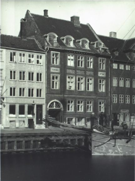 Nyhavn 63 in Copenhagen, Denmark